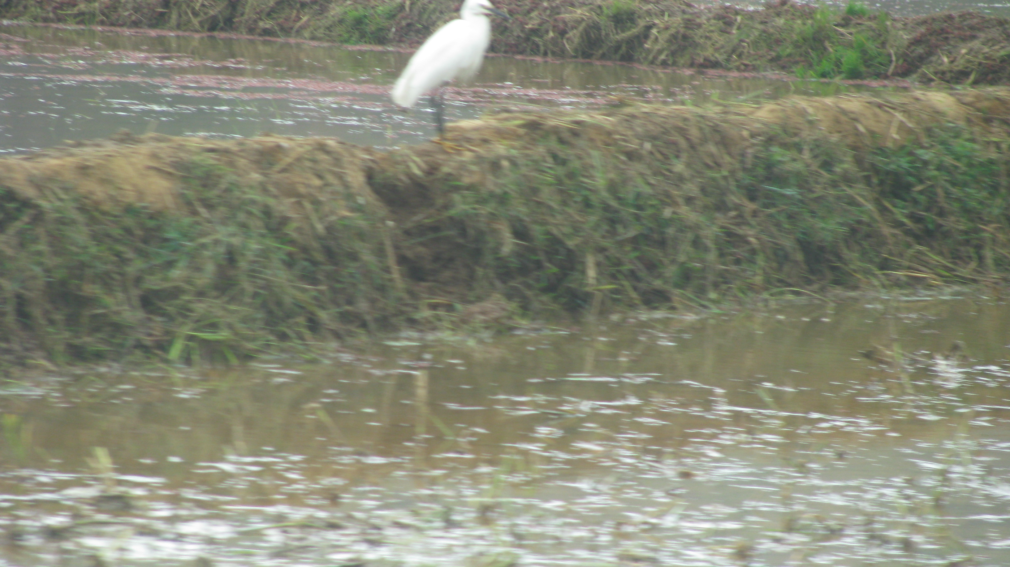 East of Antananarivo (Madagascar), I took the shot from a driving taxi - but at least you can see the characteristic combination of black legs and yellow feet.